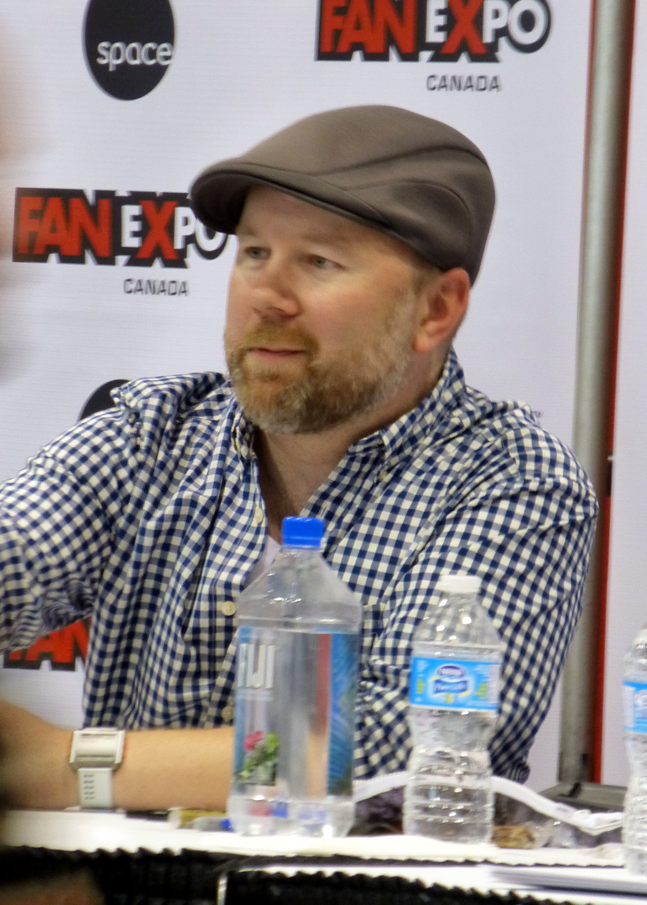 Voice actor noted for Dragonball Z 2014 Fan Expo Canada